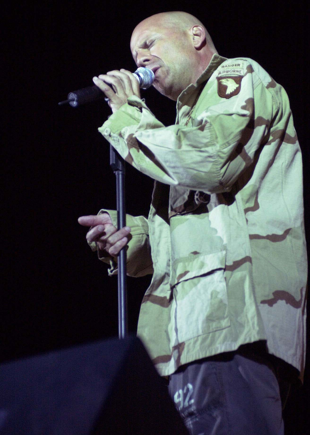 Bruce Willis and the Accelerators perform for 101st Airborne Division soldiers in Tal Afar, near Mosul, Iraq, Sept. 25.